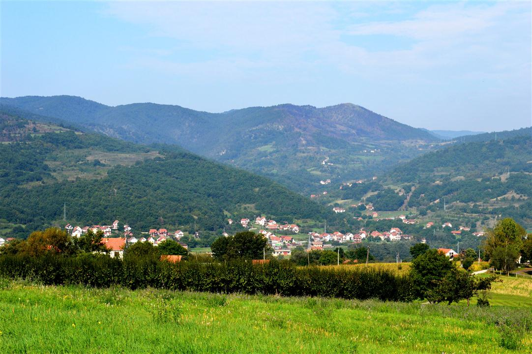 Raska Municipality - Korlaće